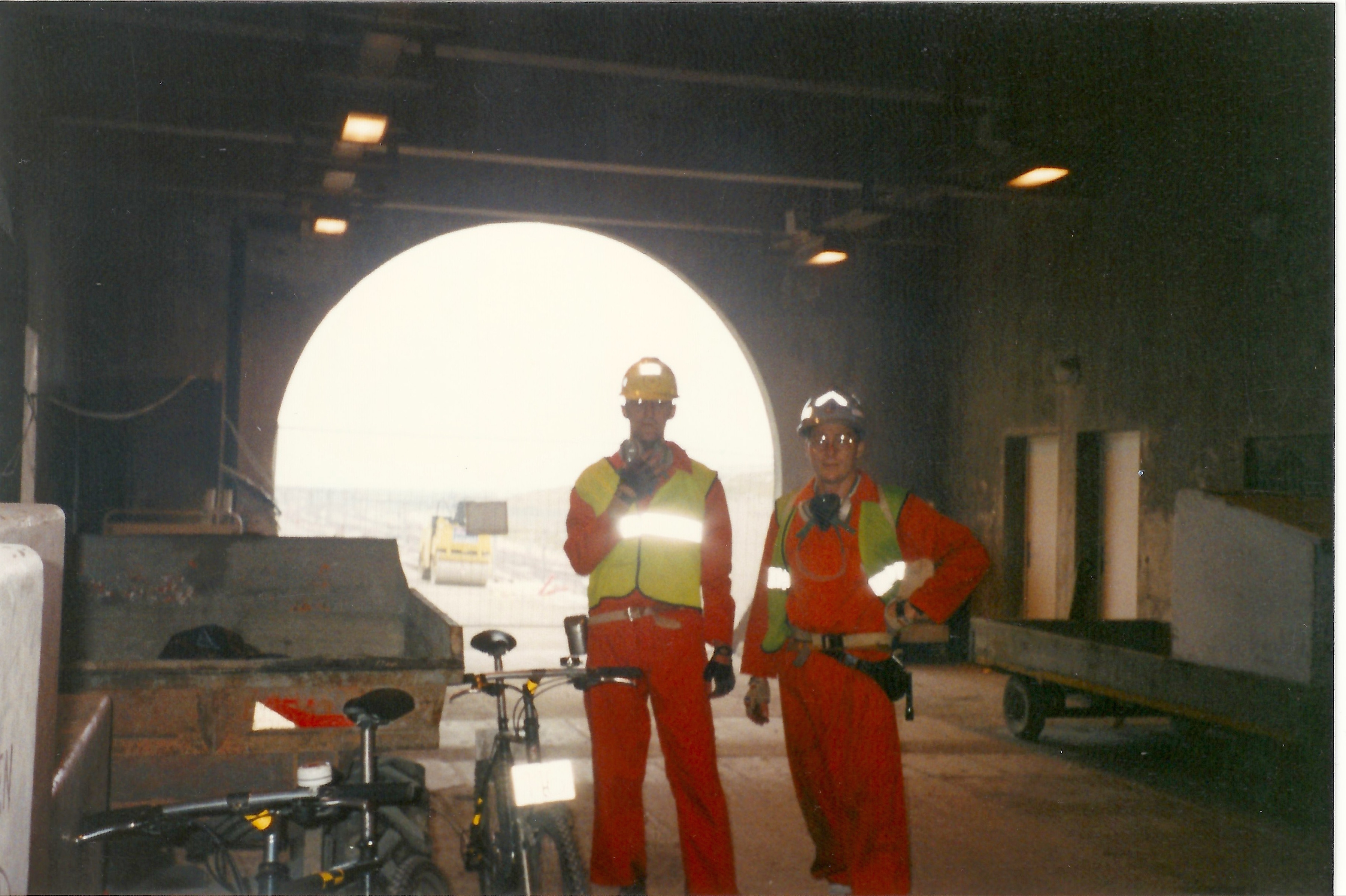 Mike Turner (left) and Wally Michalski (right) at the French Portal on UK Bikes